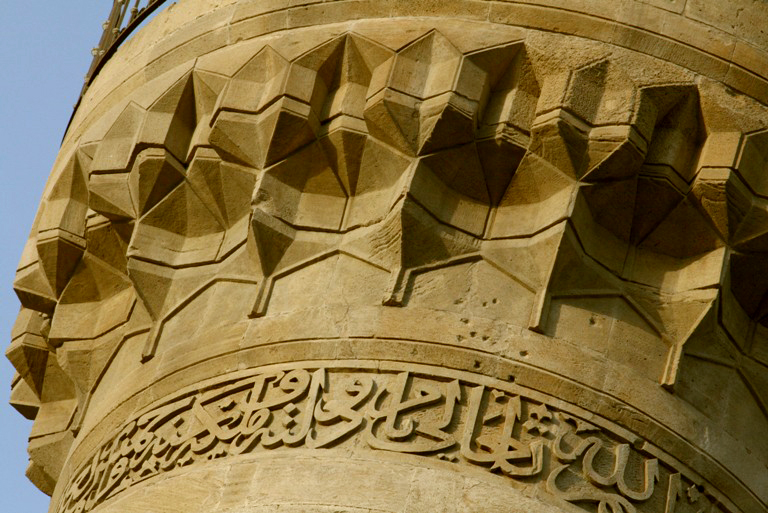 minaret_at_khans_mosque_in_shirvanshahs_palace_in_baku_14thcentury